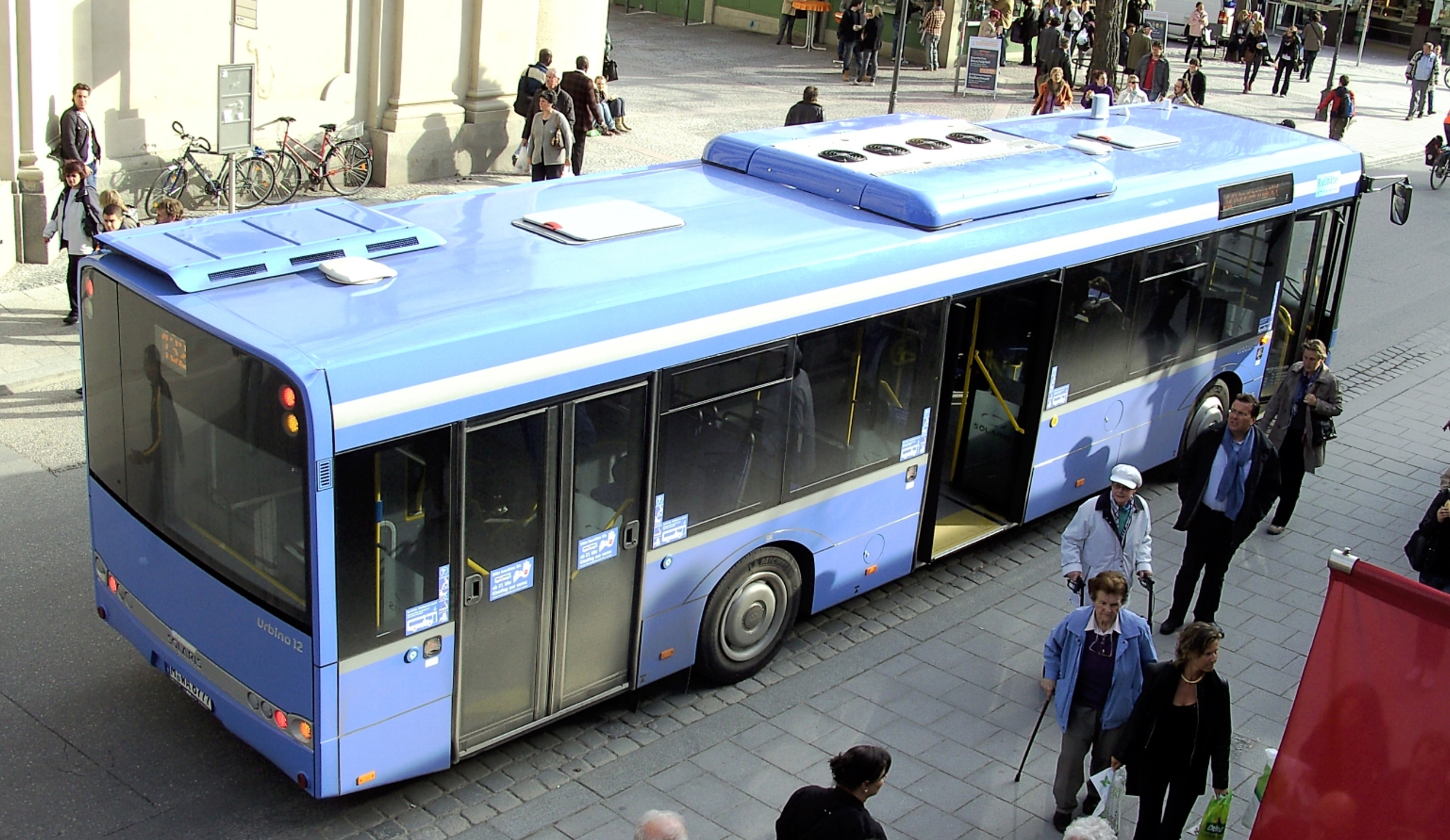 Solaris Urbino 12 Mk3 bus (reg. M-..A 8777 or M-..A 6777) in Munich, Germany.